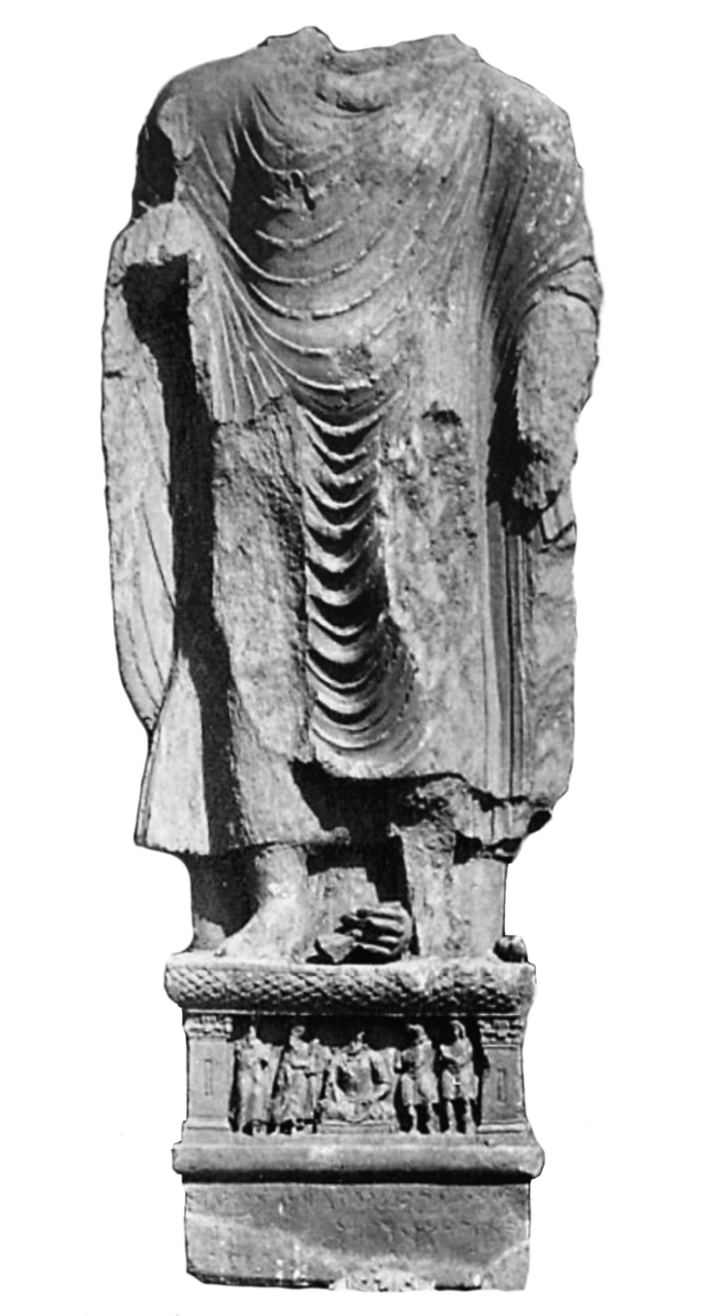 Loriya Tangai Buddha. The statue is located on the right of this group. Head and arms are thought to be similar to this Buddha from the same group.